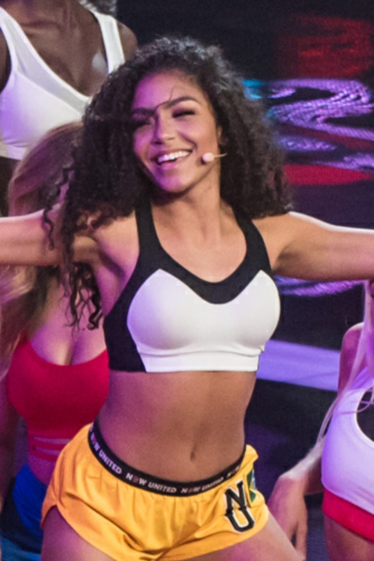 Any Gabrielly in 2018